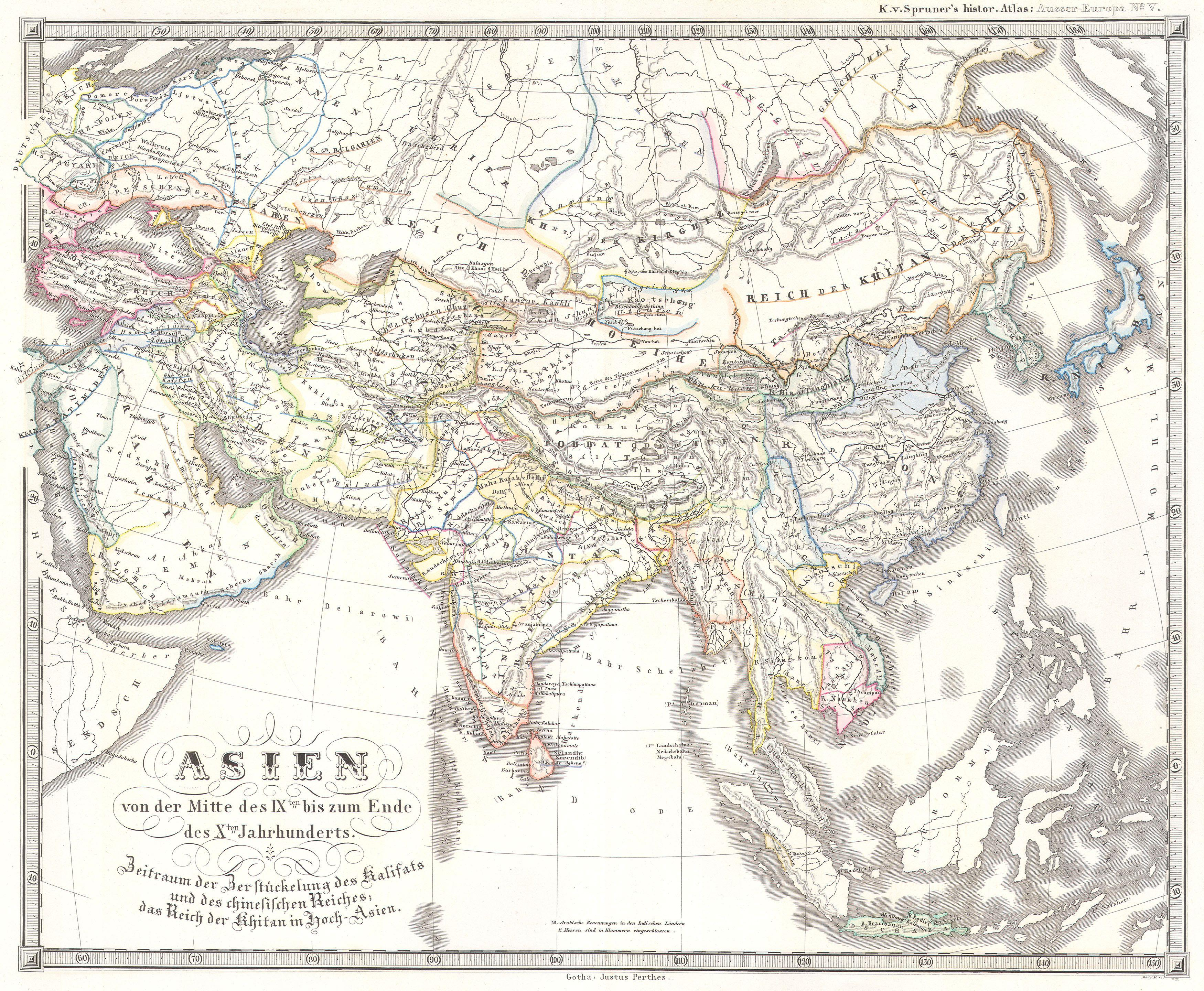 This fascinating hand colored map depicts Asia during 9th and 10th centuries. This period corresponds with the Song dynasty of China and the Manchurian expansion in to Mongolia. This is also the period of the Islamic empires under the Caliphates. All text is in German, but the title roughly translates as “Asia at the middle of the 9th up to the end of the 10th century.” Map was originally part of the 1855 edition of Karl von Spruner’s Historical Hand Atlas.